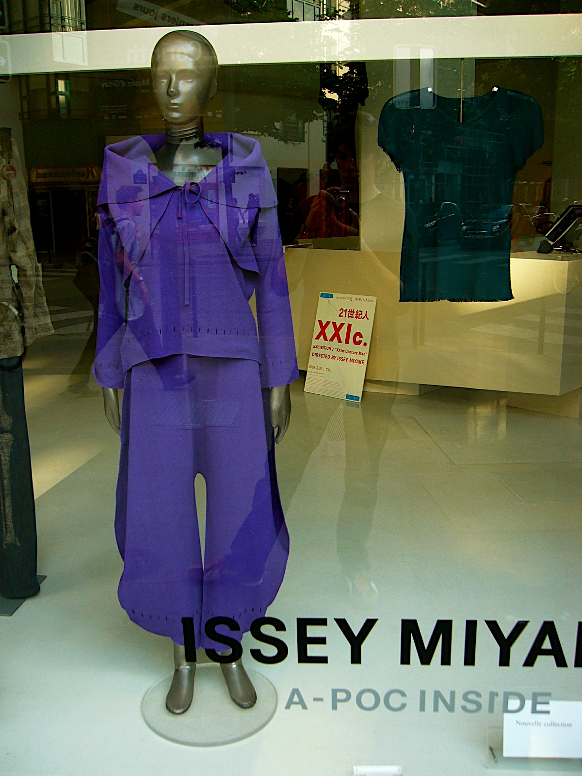 Issey Miyake in Paris, 2008